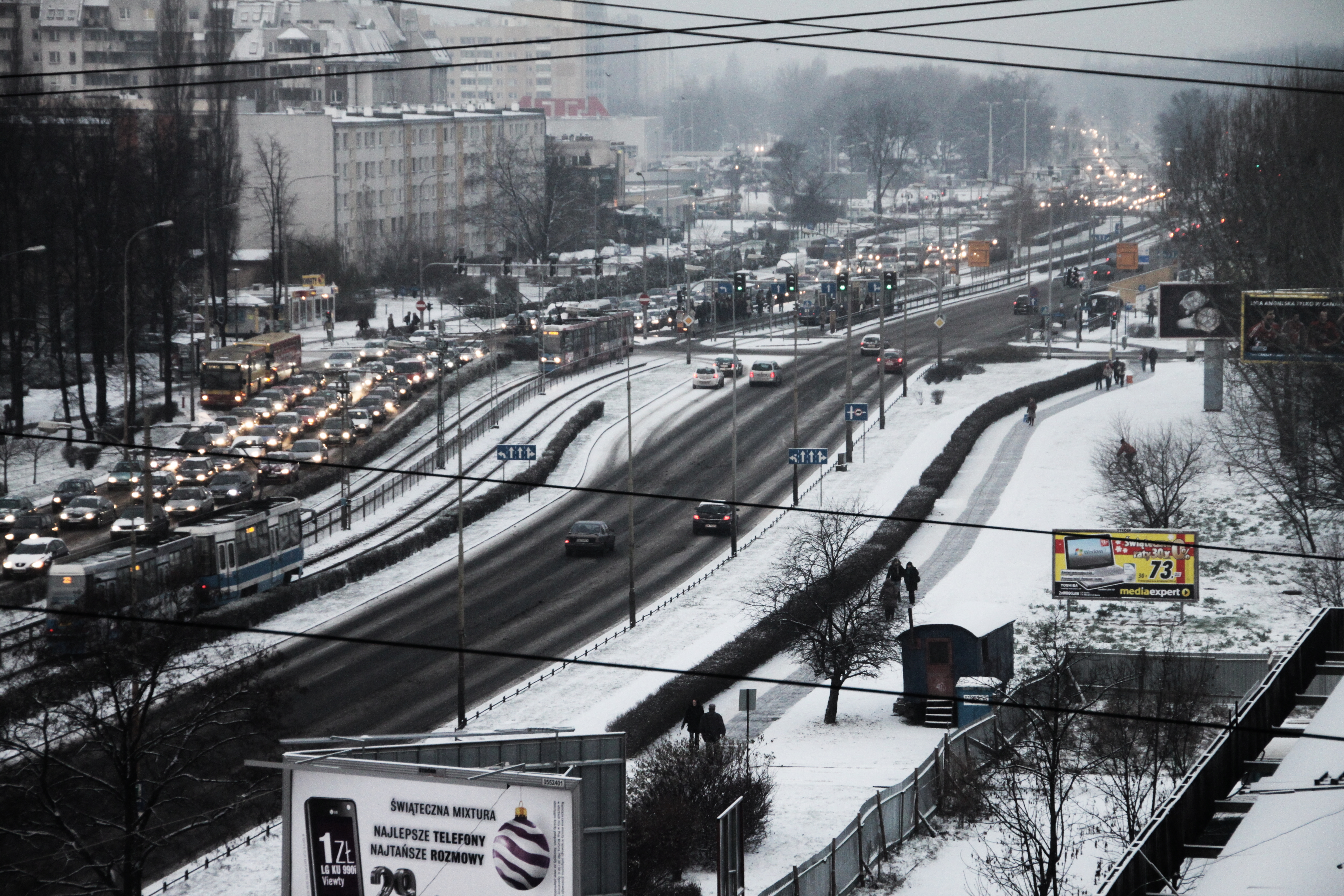 Snow in Wroclaw, Poland, December 17, 2009